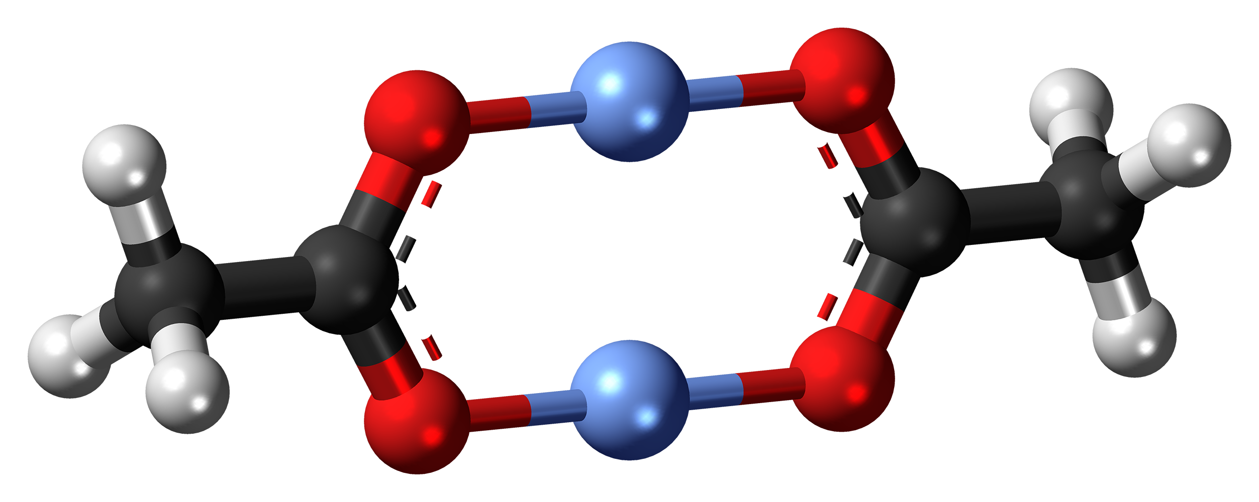 Ball-and-stick model of the silver acetate dimer, a laboratory reagent used to provide silver ions. Color code: Carbon, C: black Hydrogen, H: white Oxygen, O: red Template:ChemcolorAg